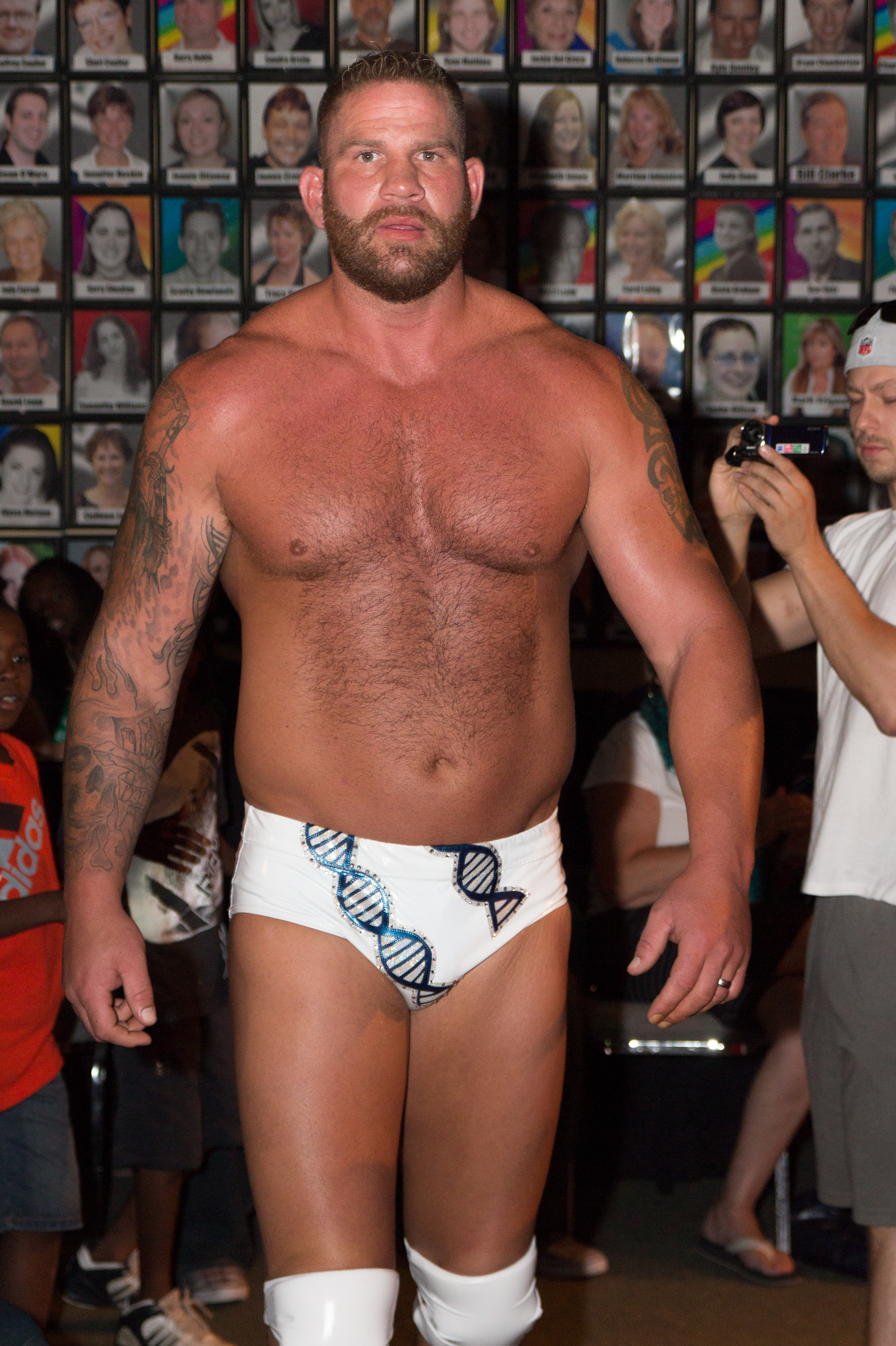 Wrestler Matt Morgan at SCW's Vendetta show at Whitby, ON